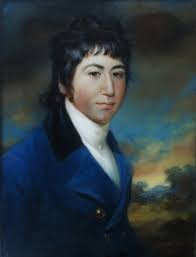 Pastel portrait of James Lawrell (1780–1842), English cricketer.